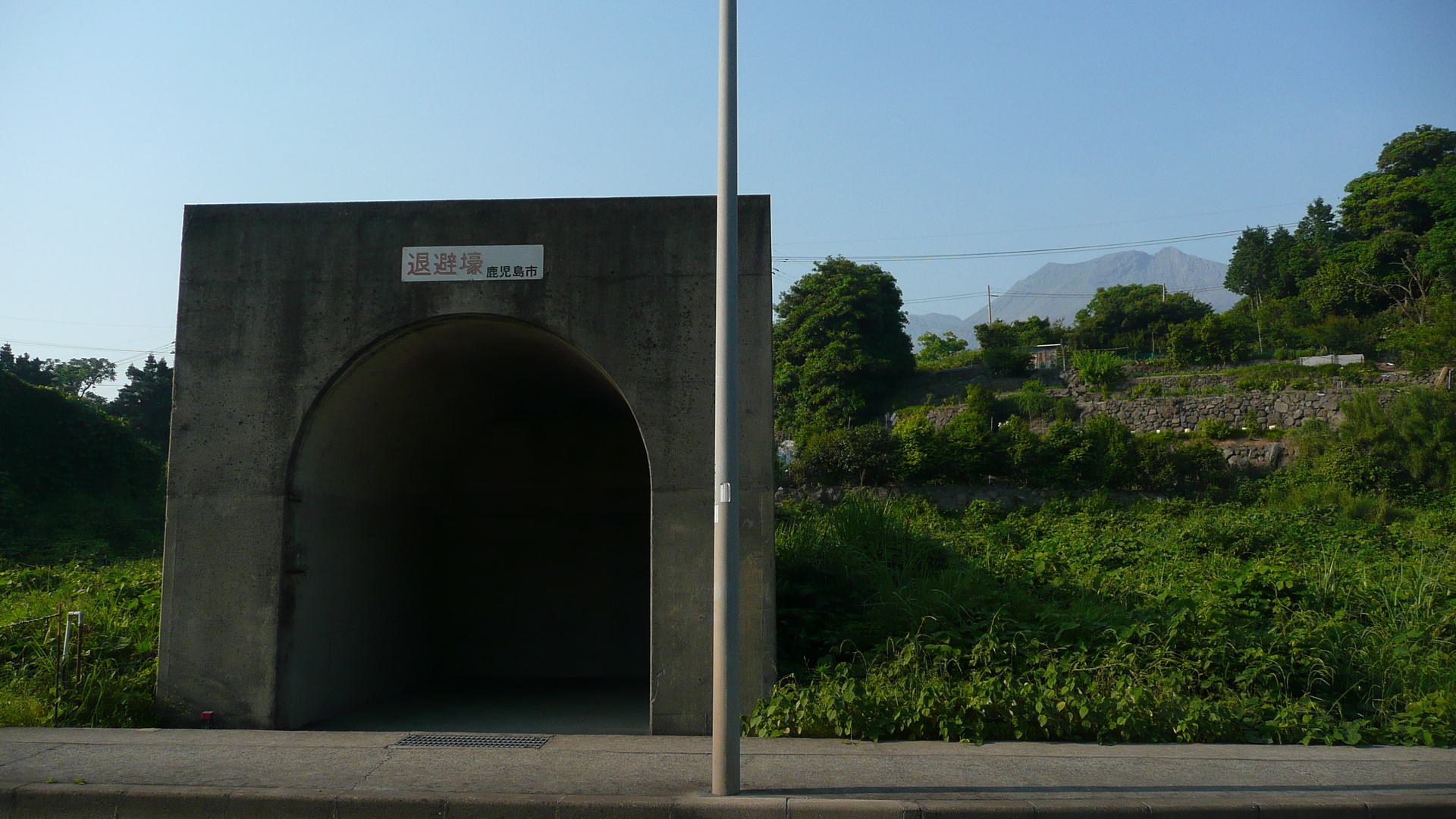 A Shelter in Sakurajima (Kagoshima Prefecture, Japan)